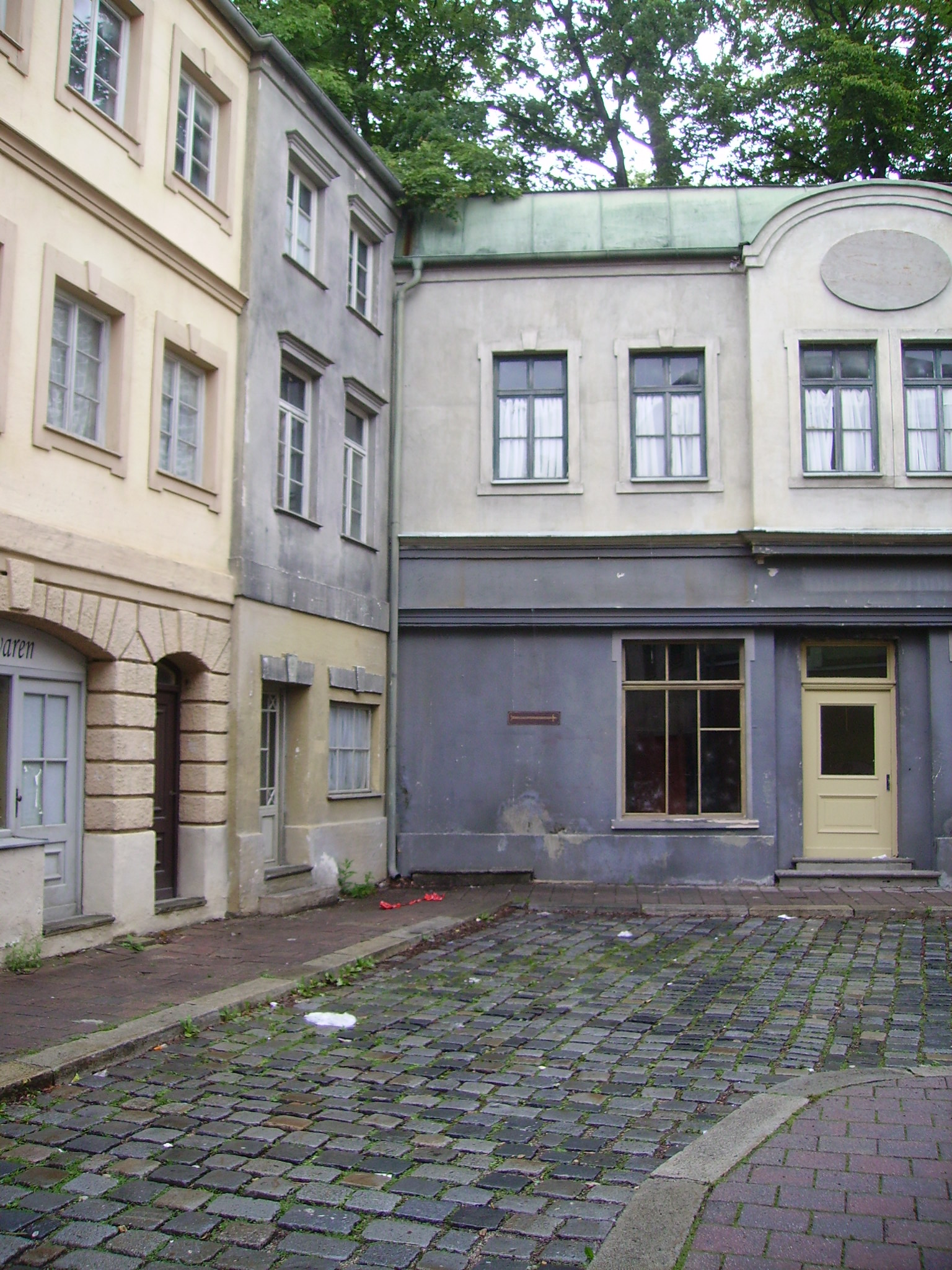 Bavaria Film in Munich, Germany